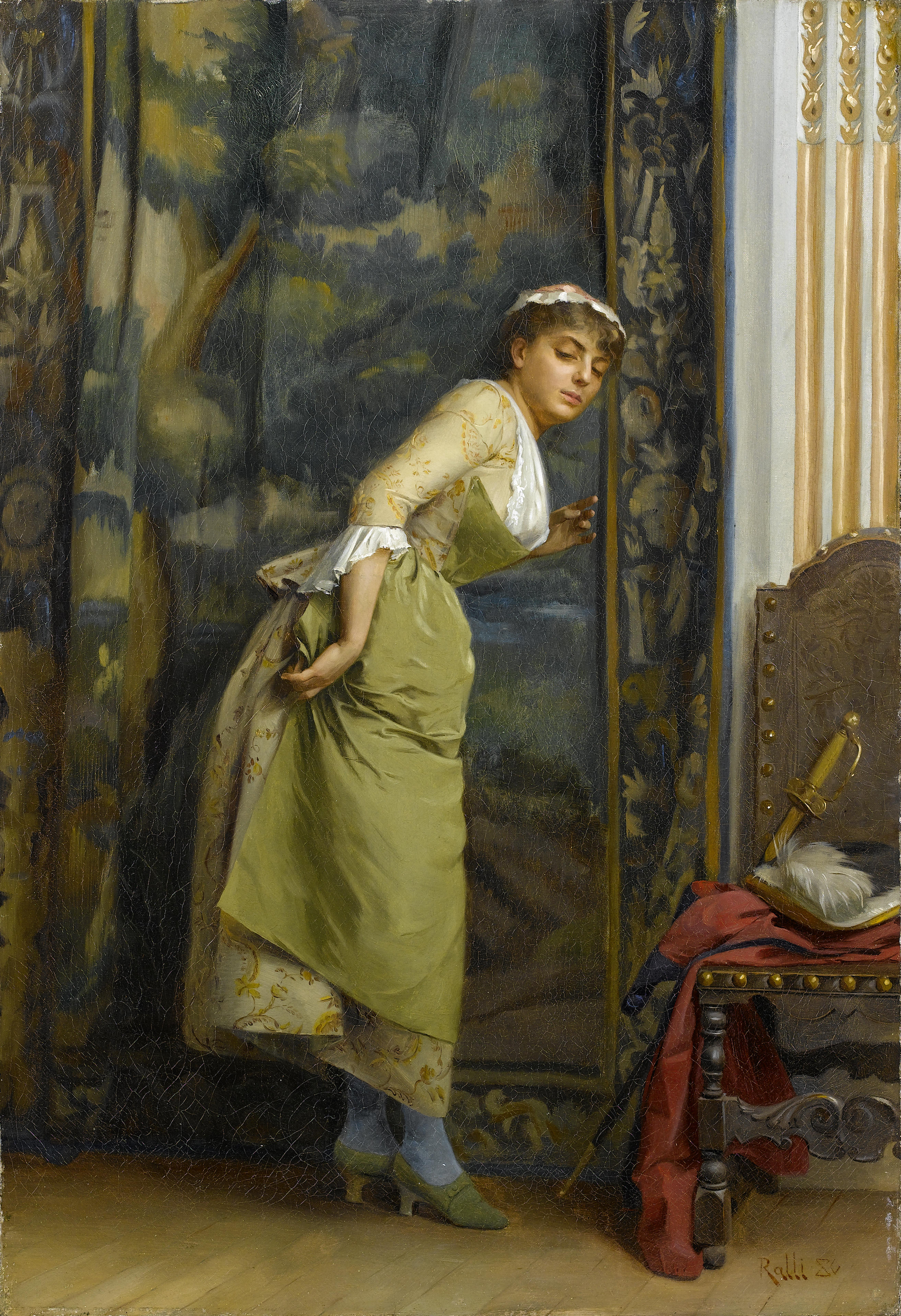 Eavesdropping